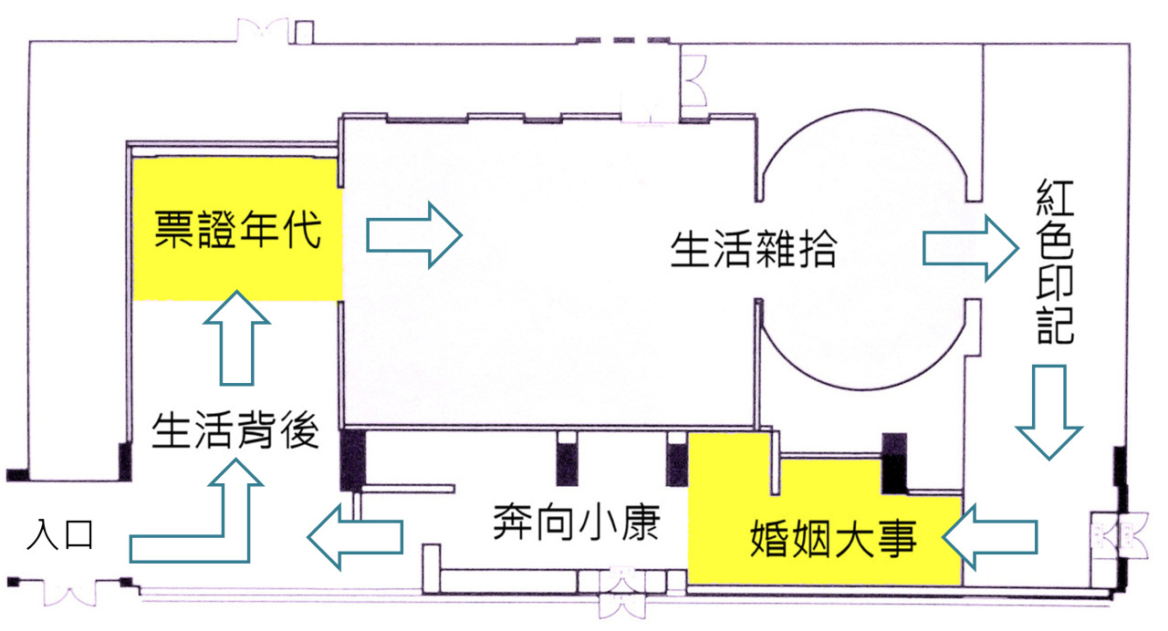 Floor plan of the "The Flavours of Everyday Life in China - Memories from the Past Half Century" exhibition at the Hong Kong Museum of History. (July 6 - Sept 26, 2011)